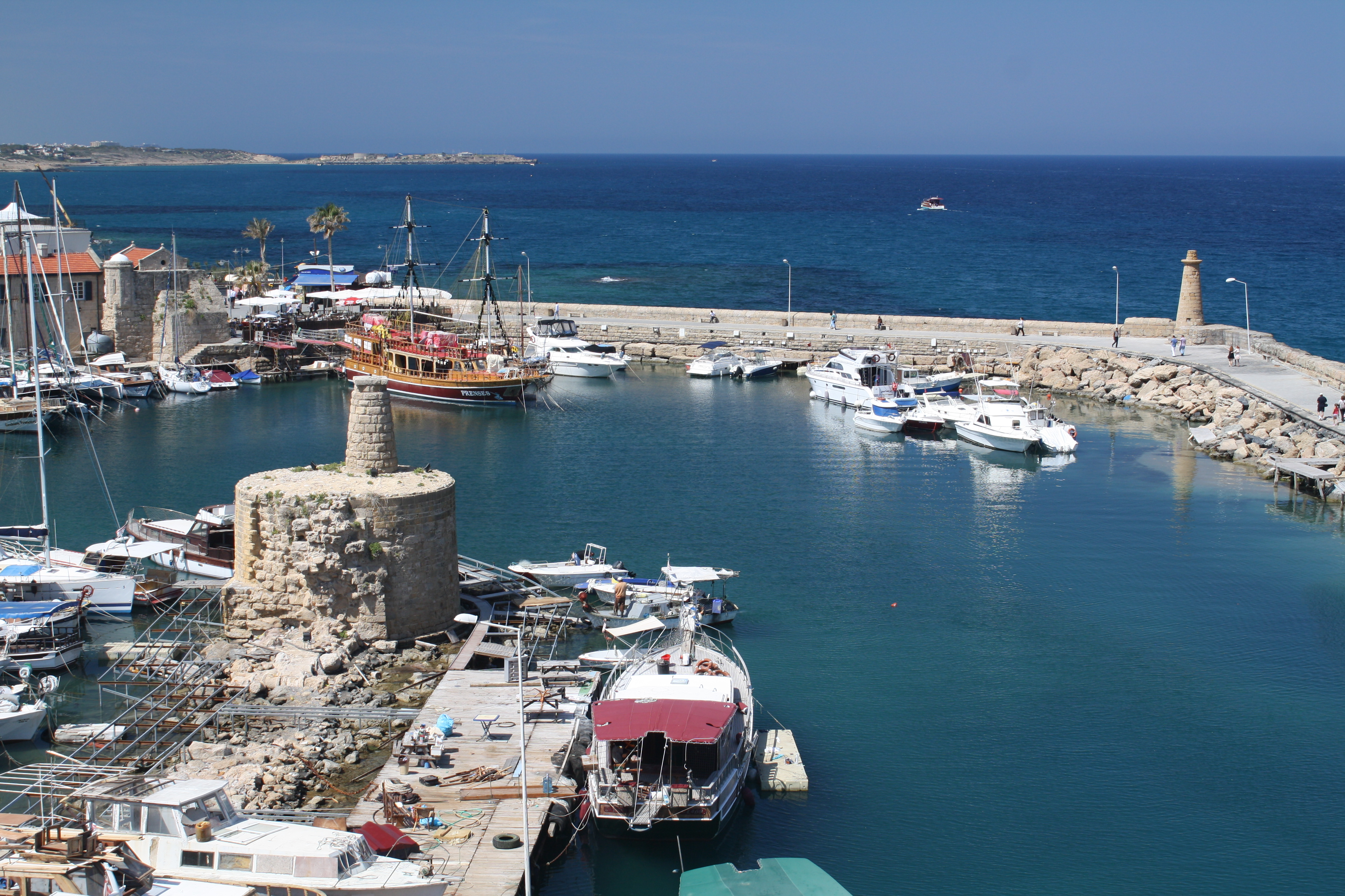 Old harbour of Kyrenia, Cyprus.